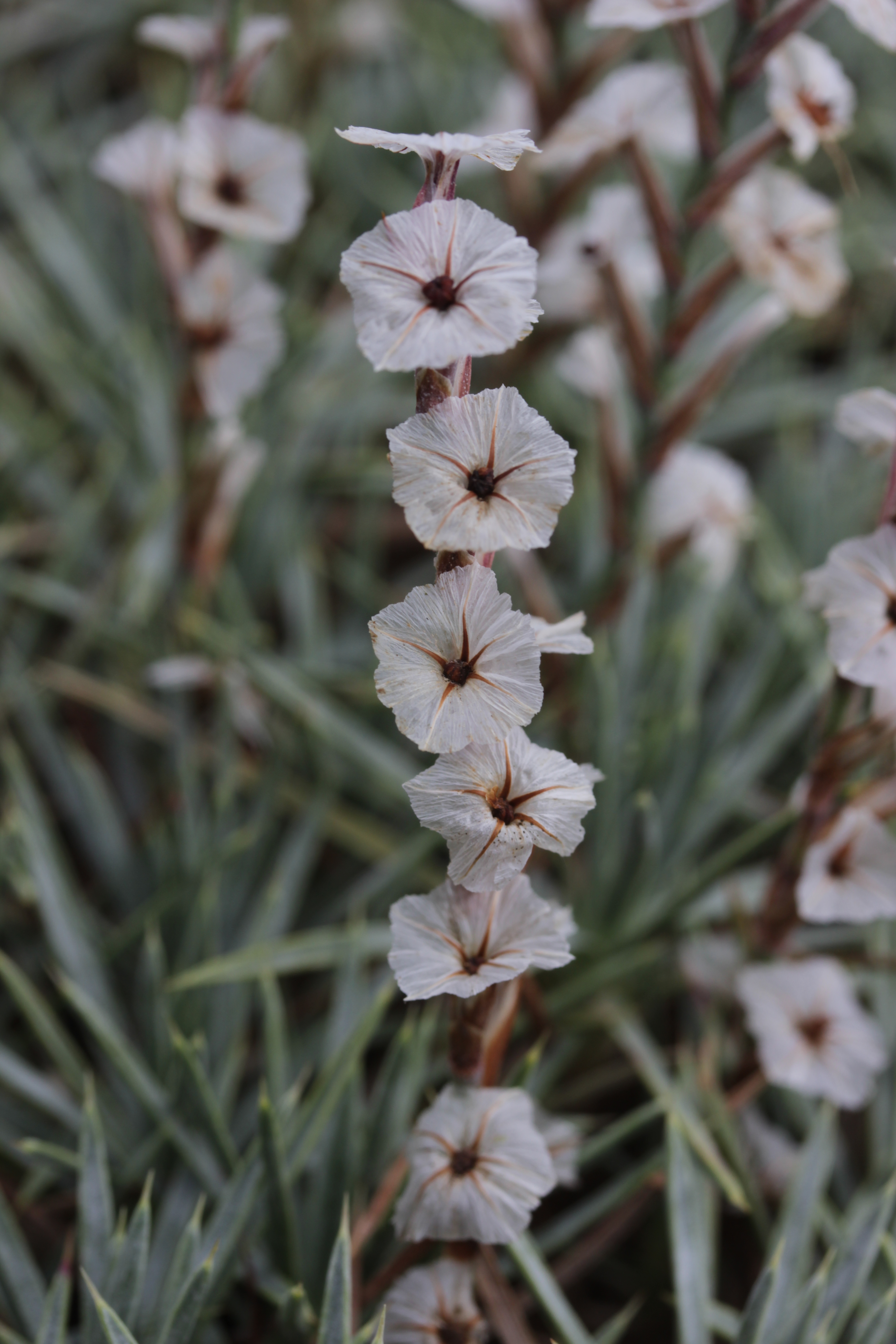 Prickly Thrift - Acantholimon kotschyi